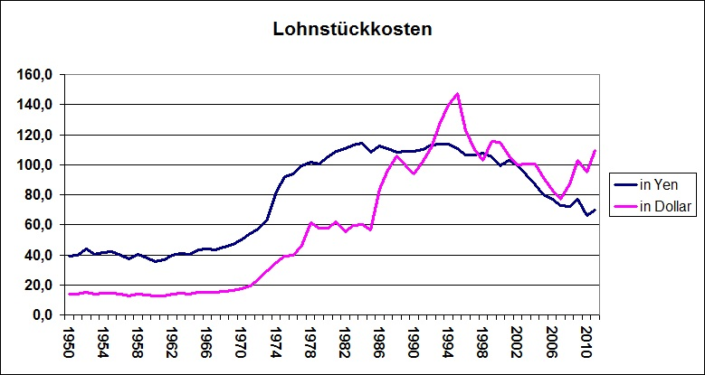 Japanese unit labor costs in national currency and $. 1950-2011. data from Bureau of Labor Statistics